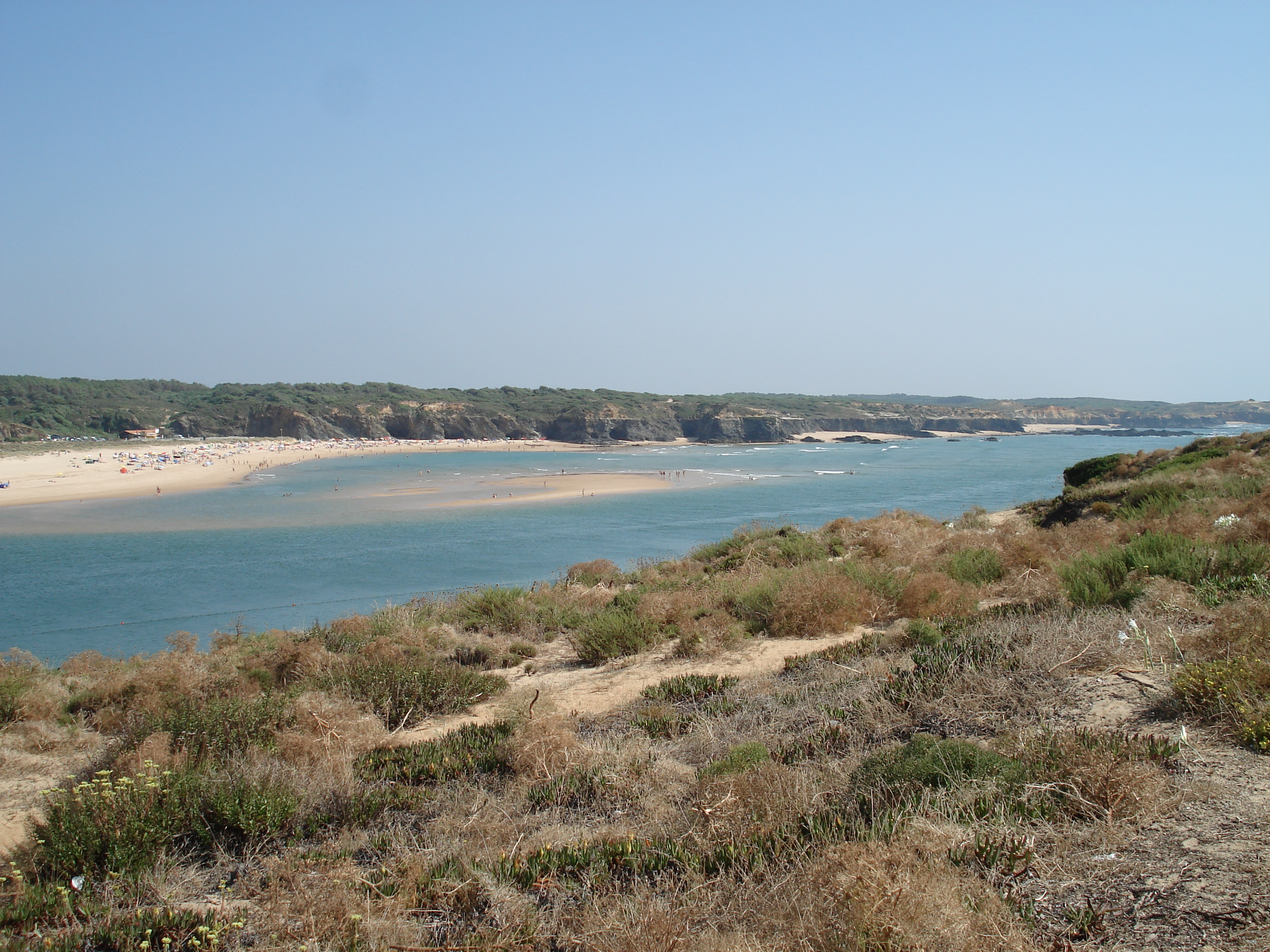 Looking across the estuary of the Rio Mira towards the Praia das Furnas and southwards along the Costa Sudoeste Alentejano